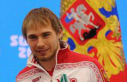 Anton Shipulin (1987), biathlete from Russia, in 2014 (cropped from File:Vladimir Putin and Anton Shipulin 24 February 2014.jpeg